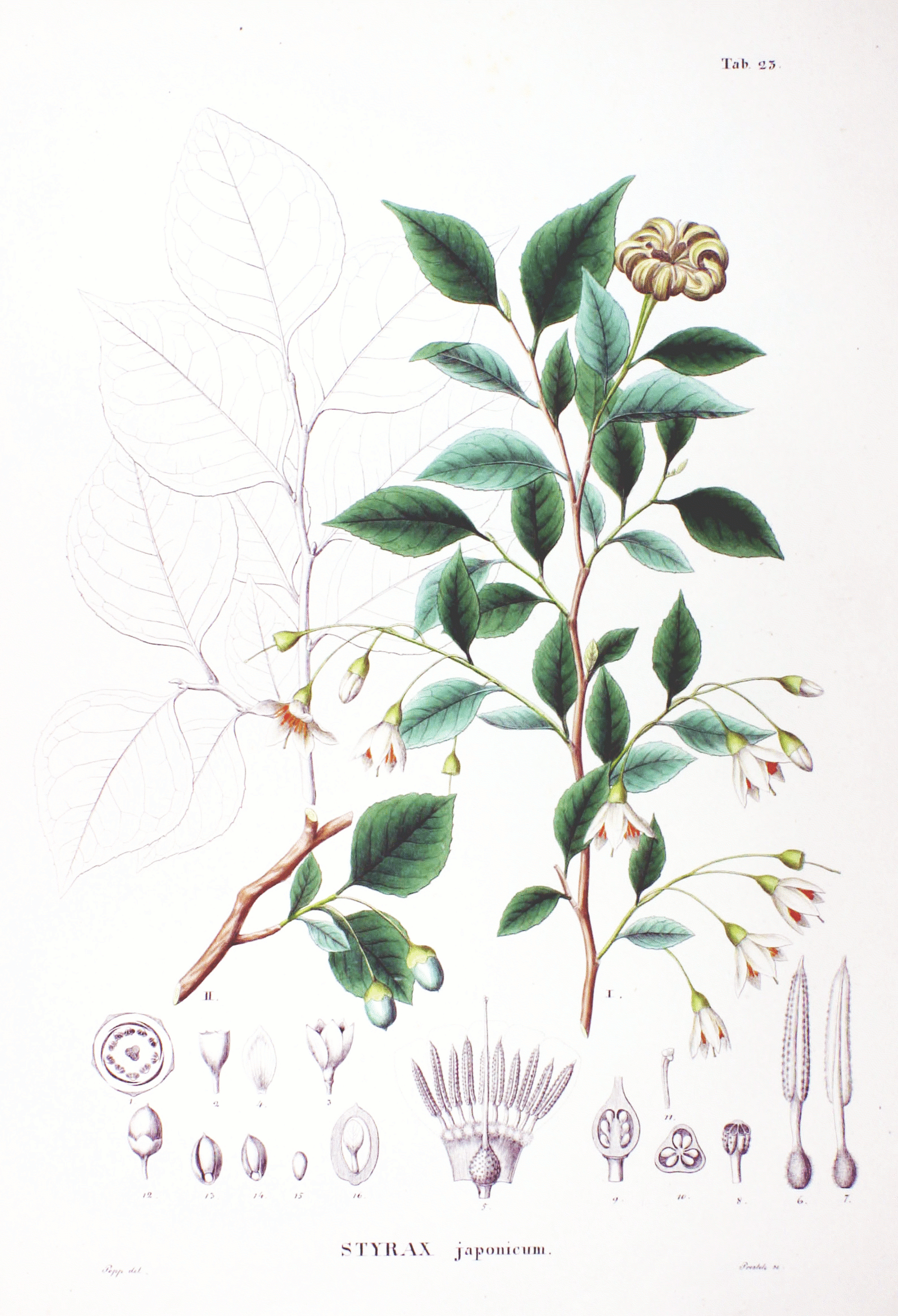 Plate from book